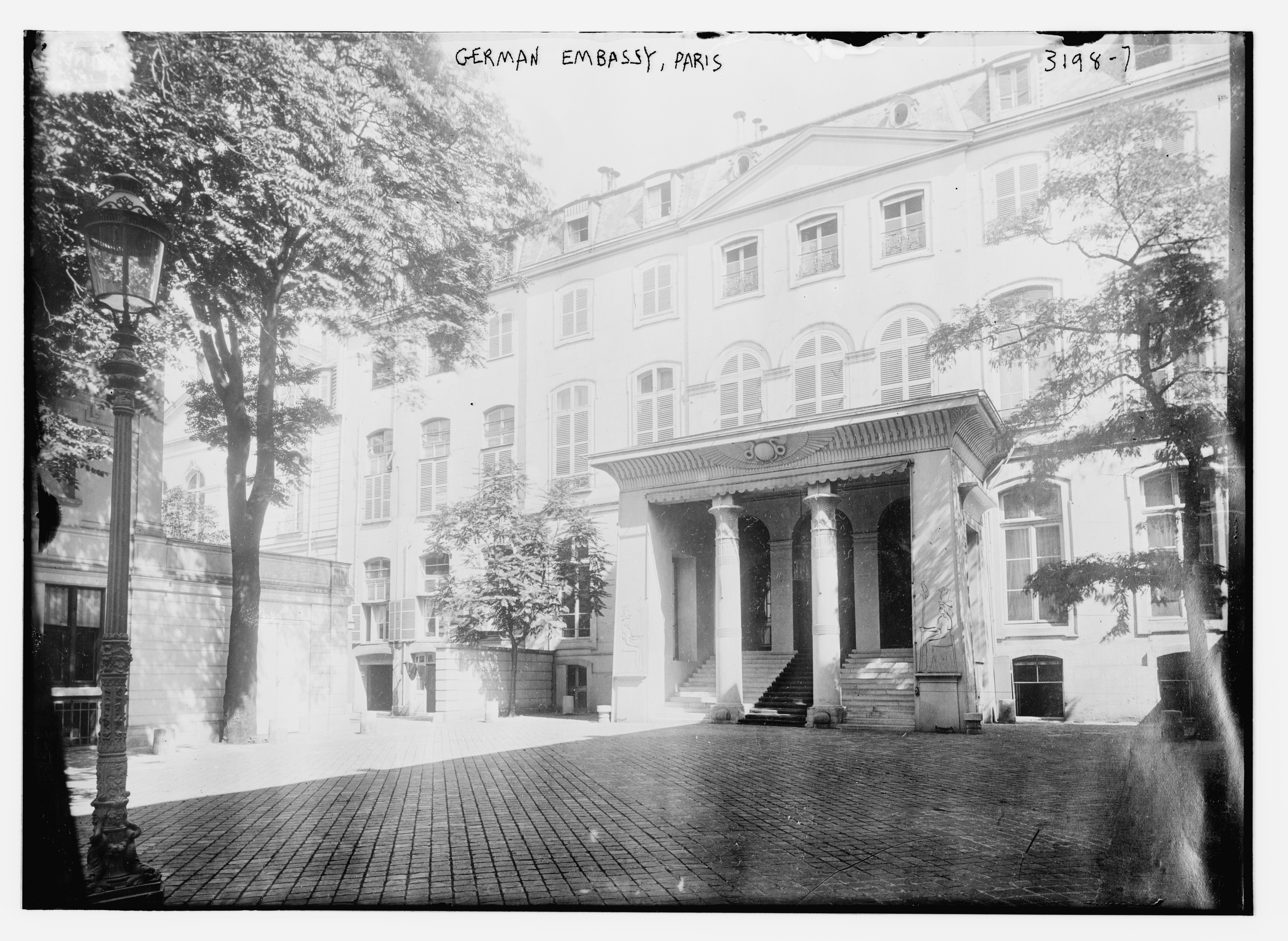 Title: German Embassy, Paris Abstract/medium: 1 negative : glass ; 5 x 7 in. or smaller.